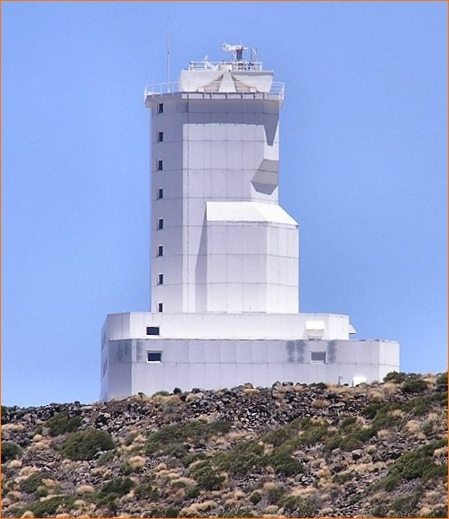 Astronomical Observatories in Izaña, Tenerife (Canary Islands, Spain).